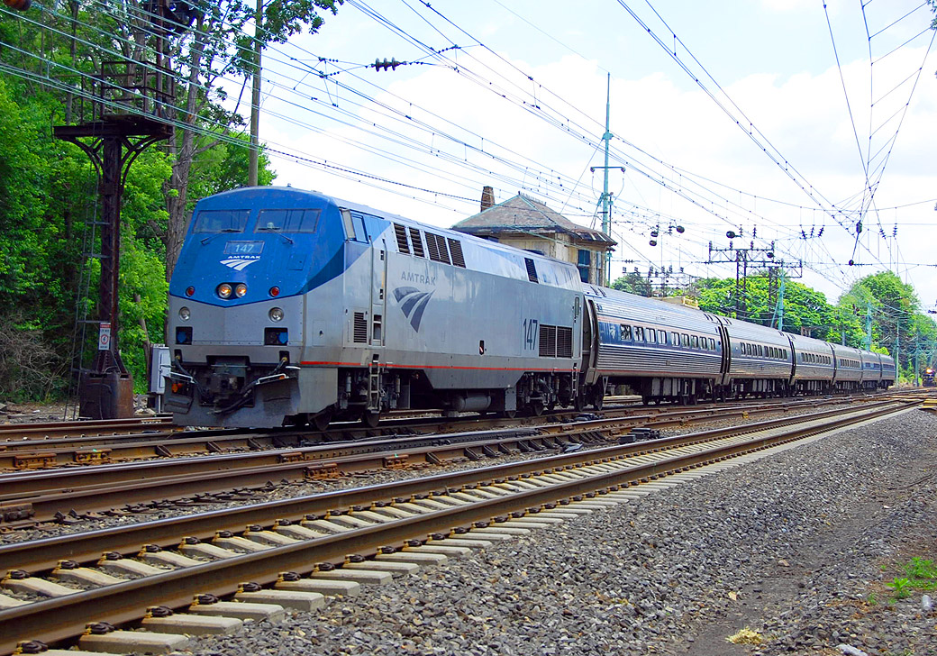 Amtrak's Pennsylvanian #43, a six car consist powered by AMTK #147, a GE P42DC diesel-electric locomotive, passing the 1895 Bryn Mawr Interlocking Control Tower (MP 10.2) at Bryn Mawr, Pennsylvania, over Track #3 of the four track Philadelphia to Harrisburg Main Line portion of the Philadelphia–Pittsburgh Keystone Corridor rail line as it makes its daily westbound run from New York to Pittsburgh.